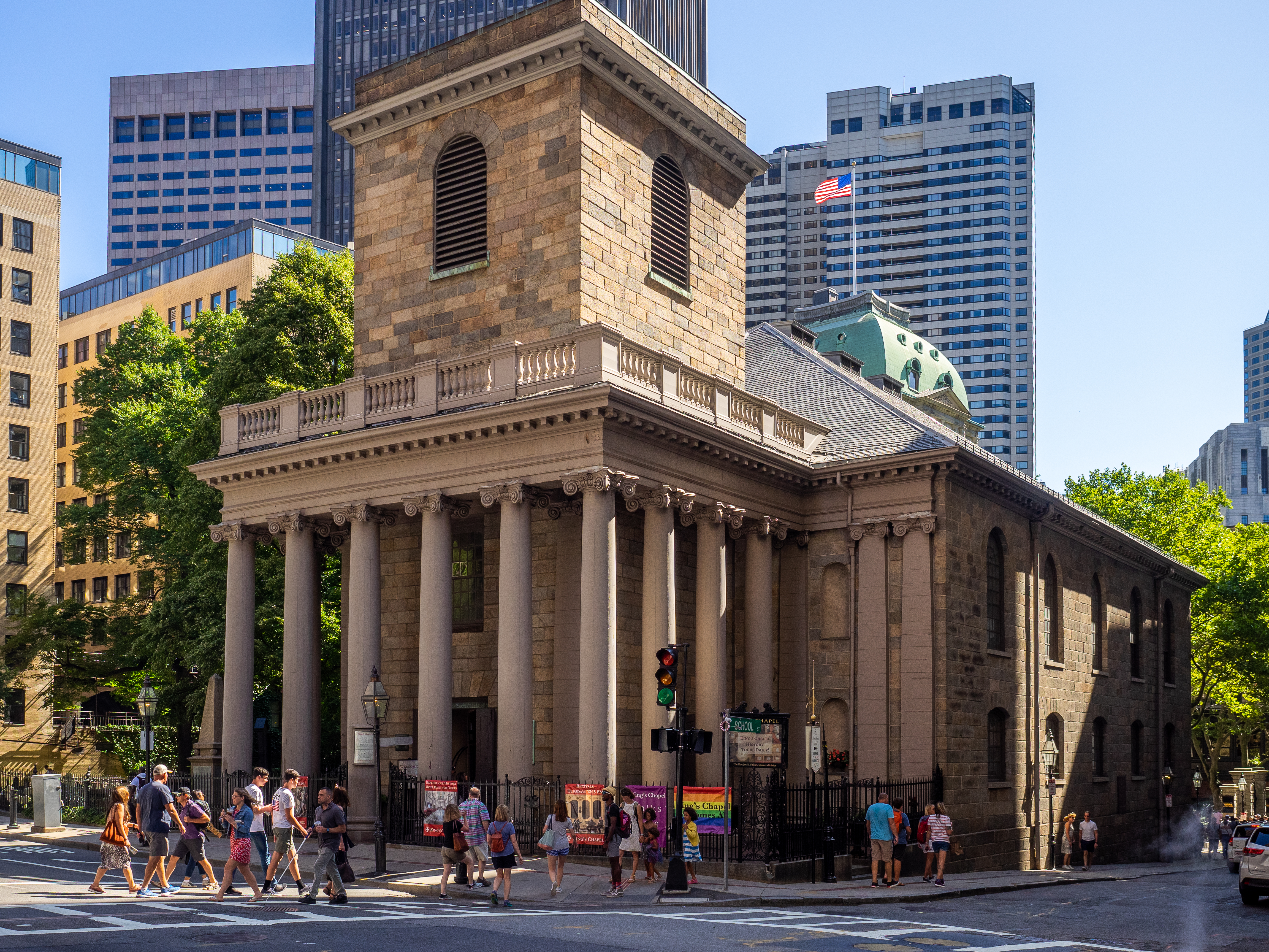 Boston, MA